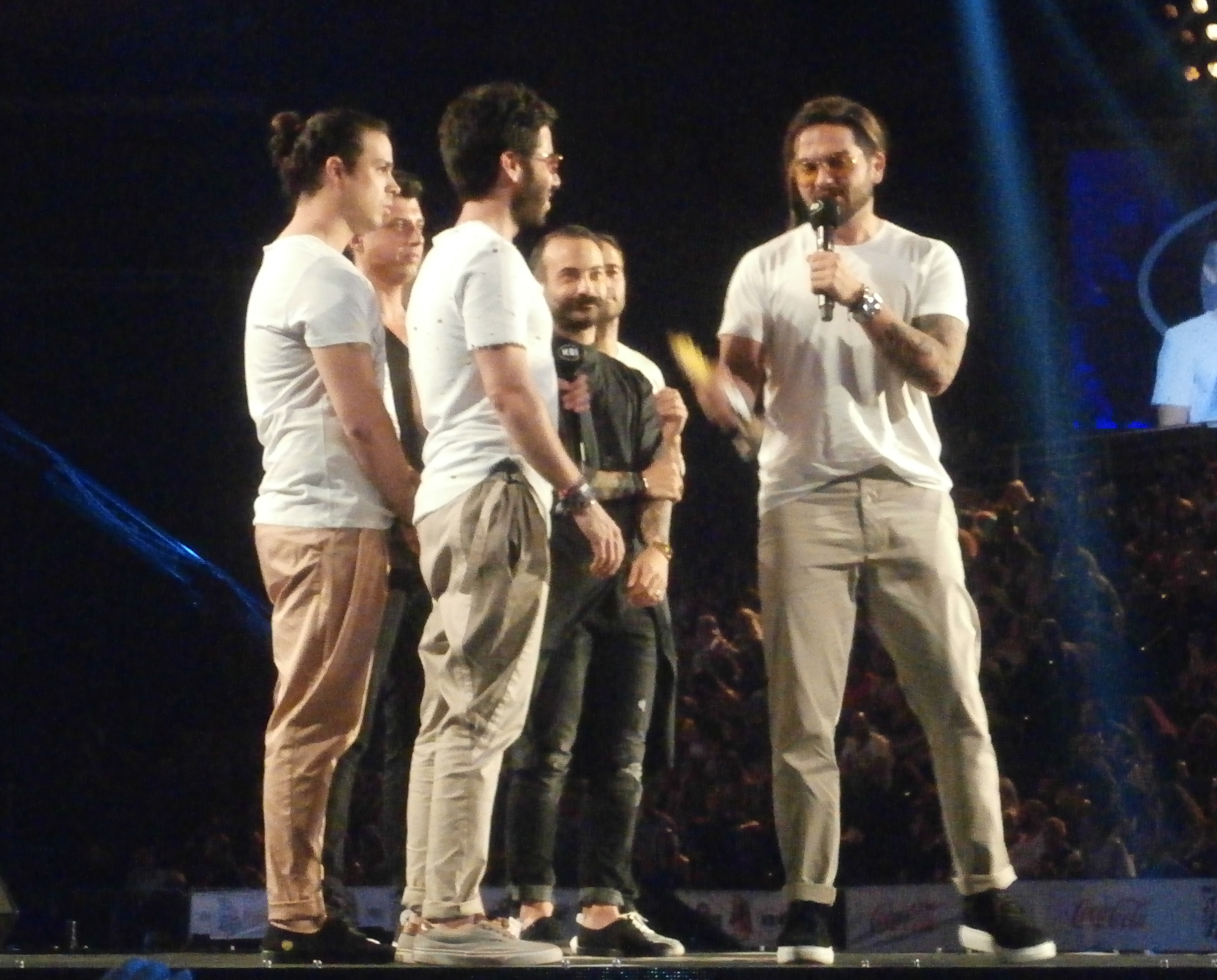 MELISSES, receiving an award at MAD Video Music Awards 2017